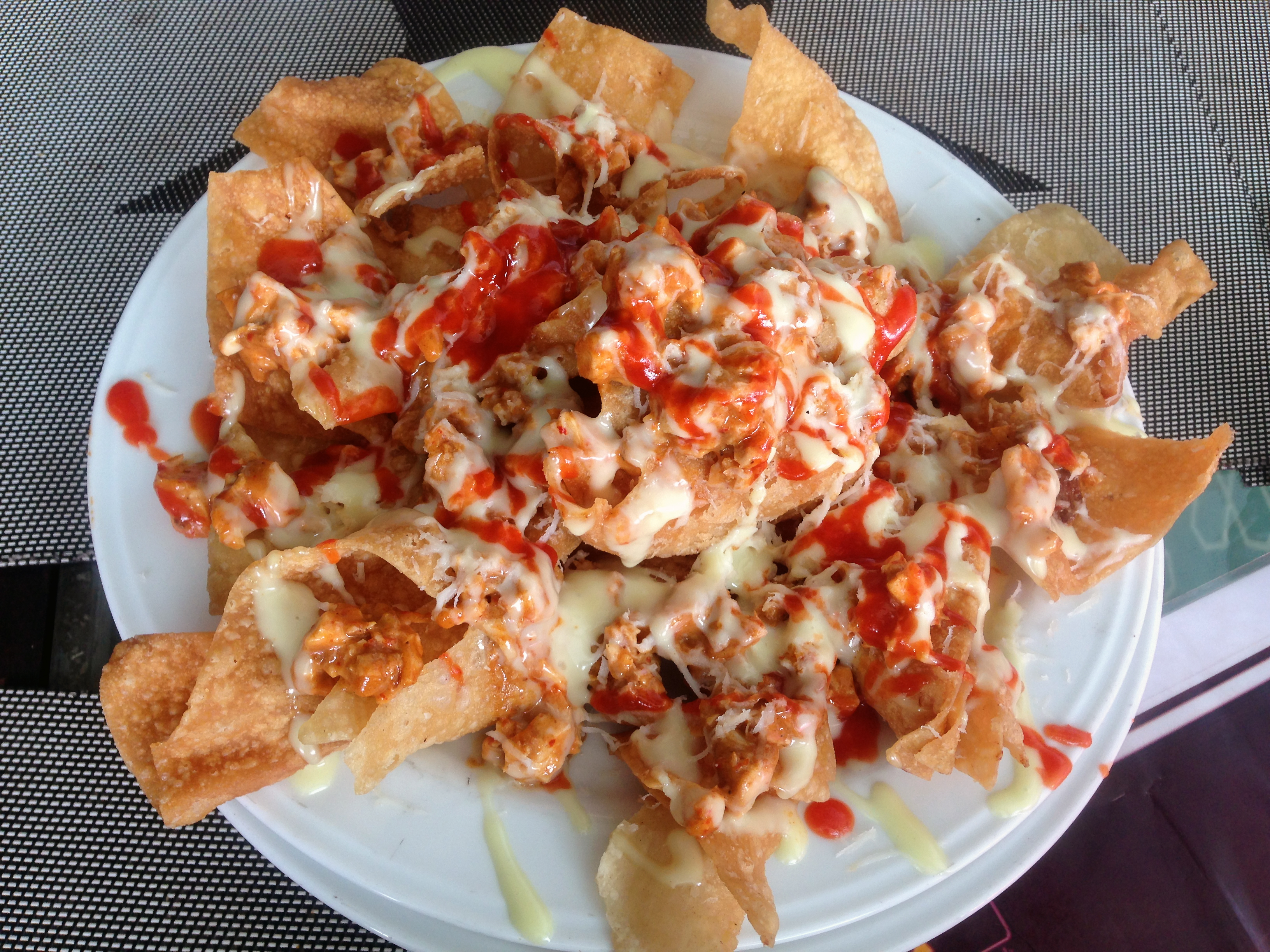 Nachos, Majlish restaurant, Chittagong.